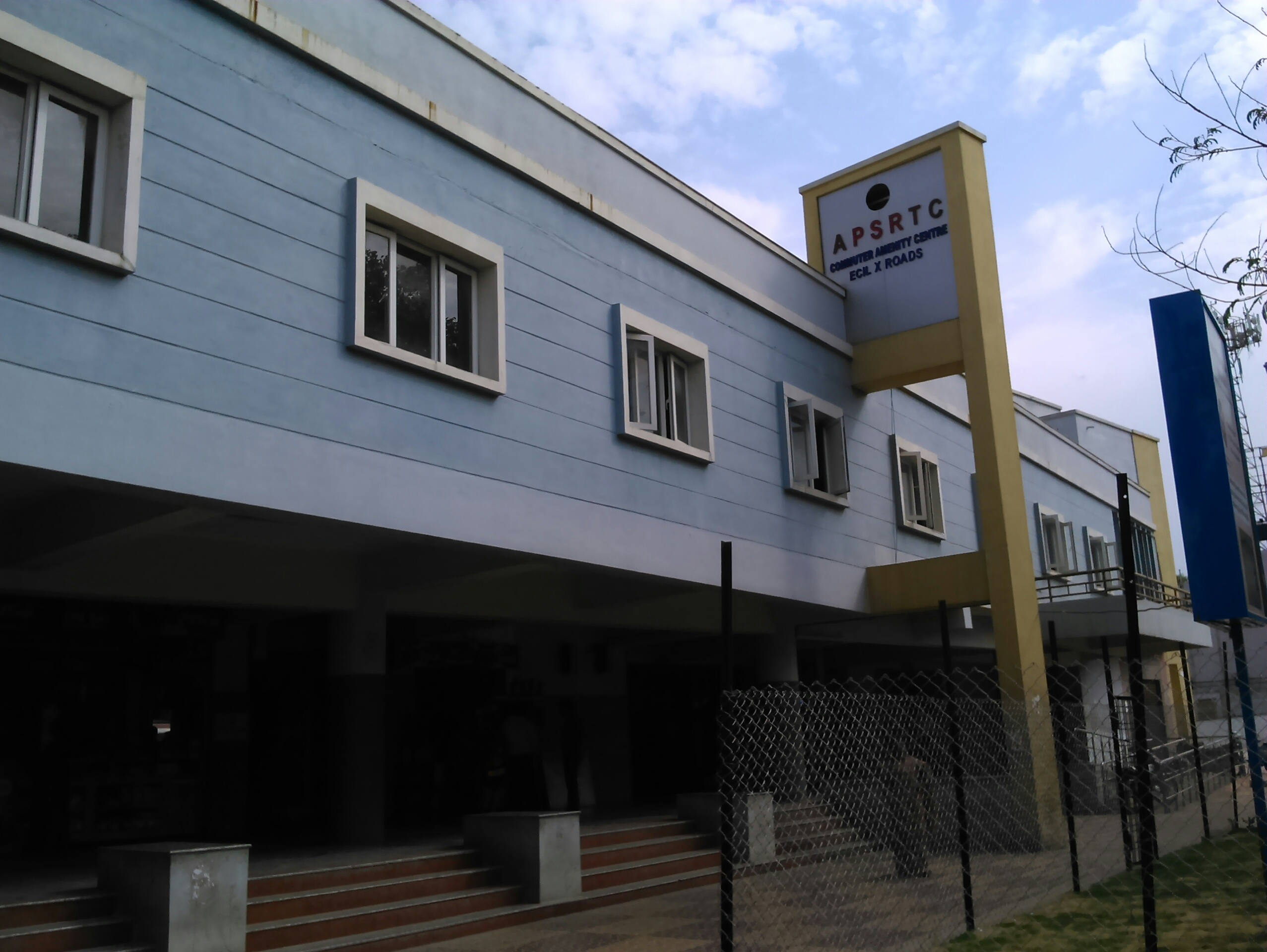 ECIL bus station entrance.